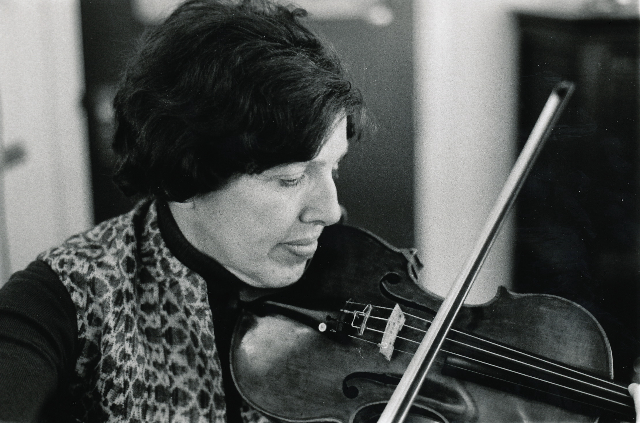 Dutch violinist and teacher Davina van Wely